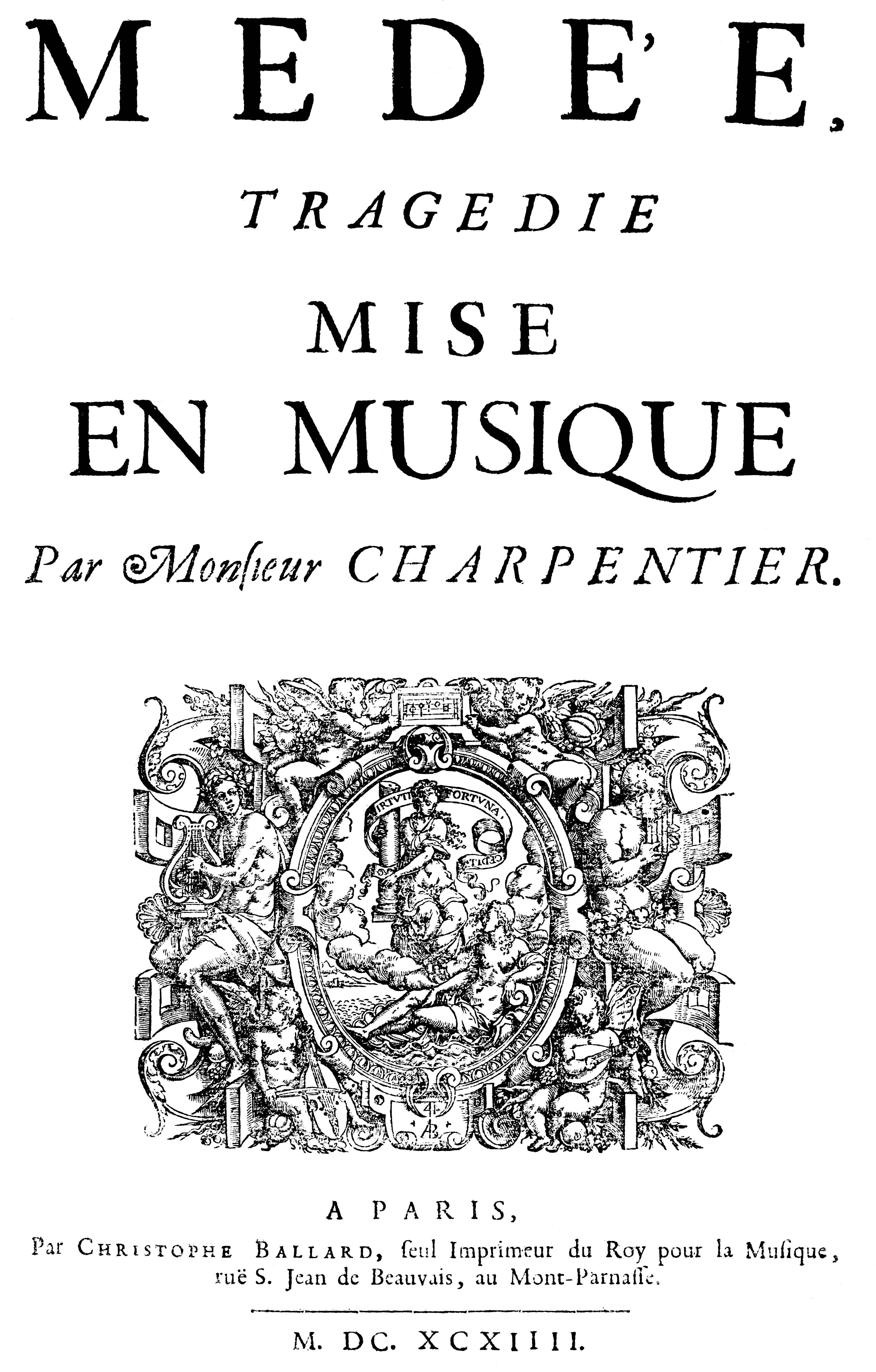 Marc-Antoine Charpentier - Médée - title page of the score - Paris 1694